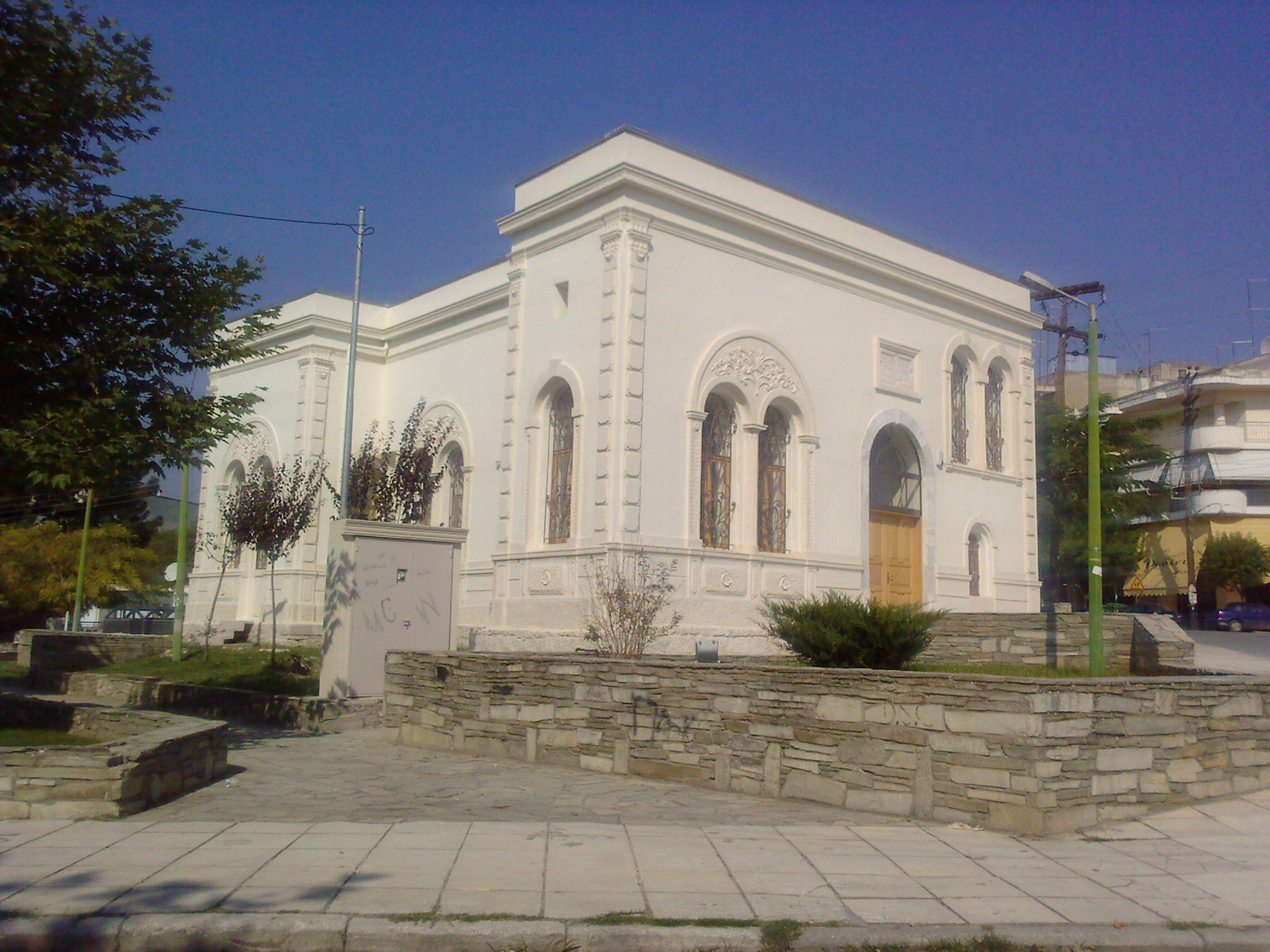 The tomb of Evrenos, Gianitsa /bulgarian Enidje Vardar/Turkish Vardar Yenicesi, Aegean Macedonia